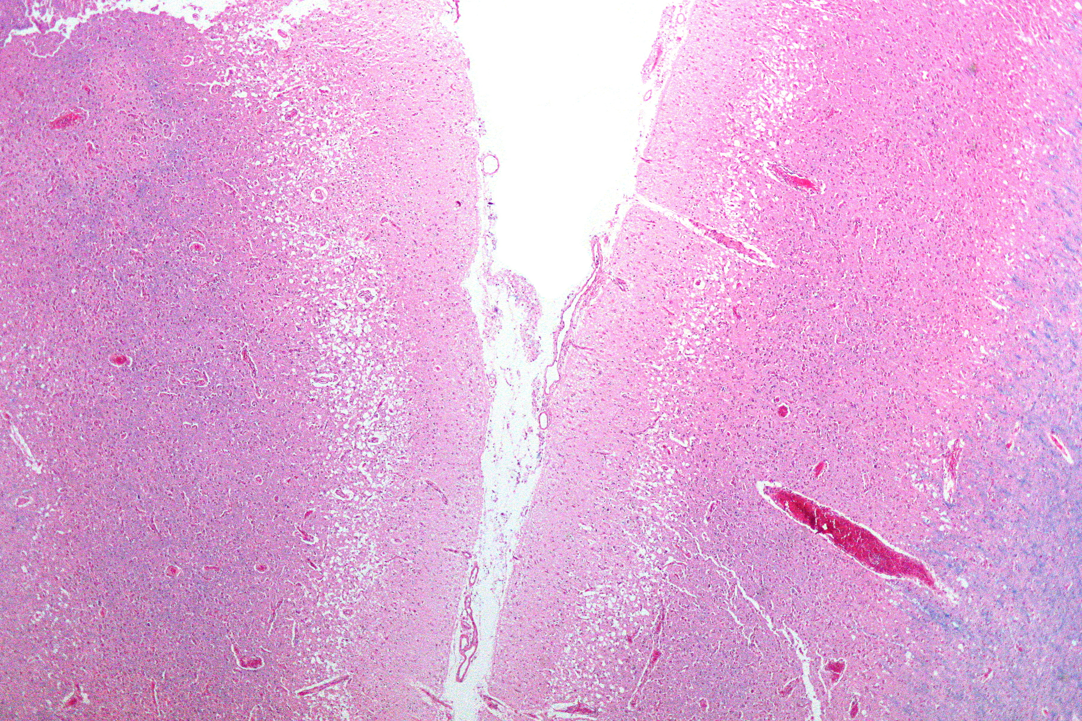 Very low magnification micrograph of cortical pseudolaminar necrosis, also known as laminar necrosis. H&E-LFB stain. Related images Very low mag. Intermed. mag. High mag.